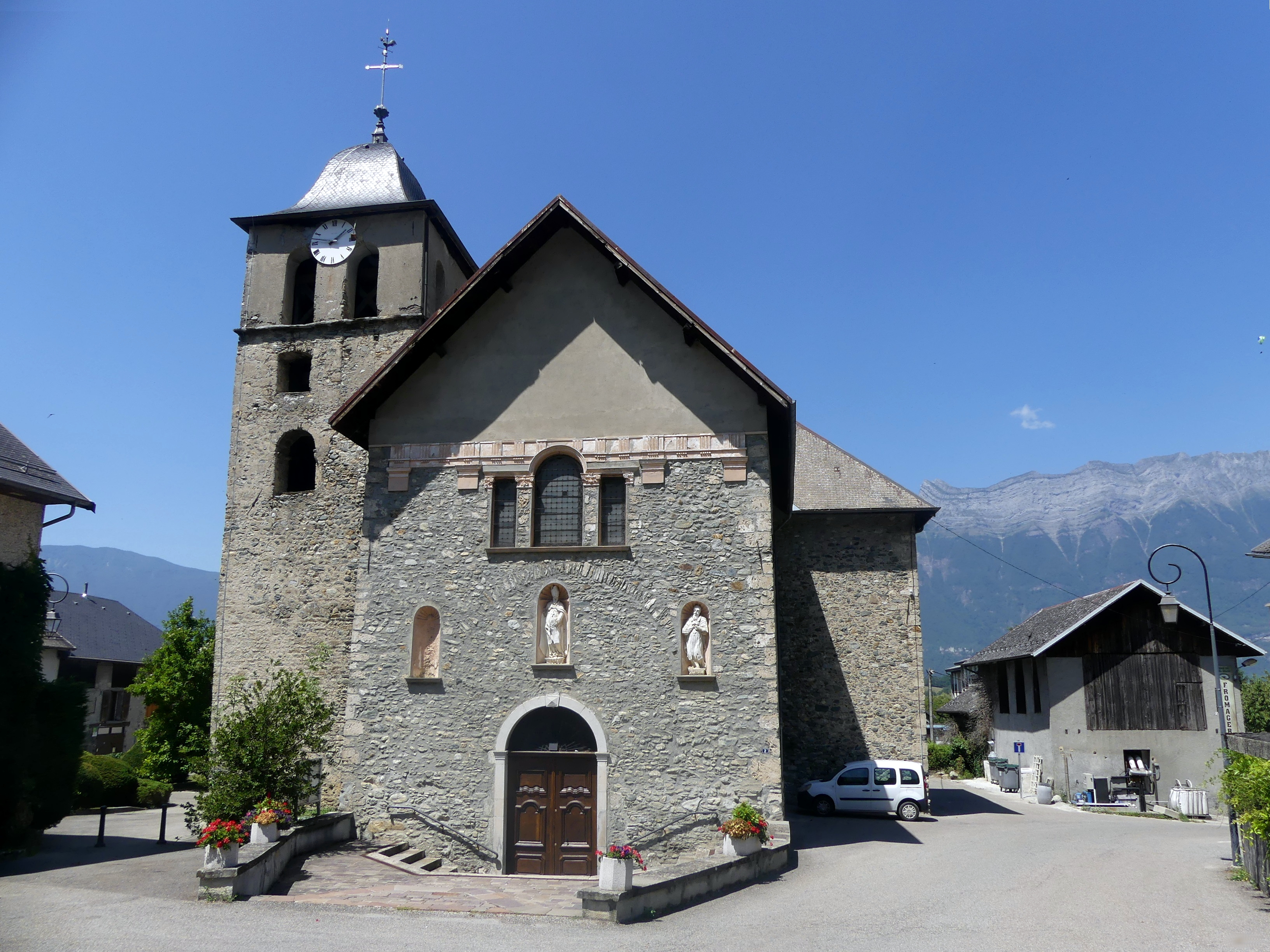 Sight of Saint-Martin church in Chamoux-sur-Gelon, Savoie, France.